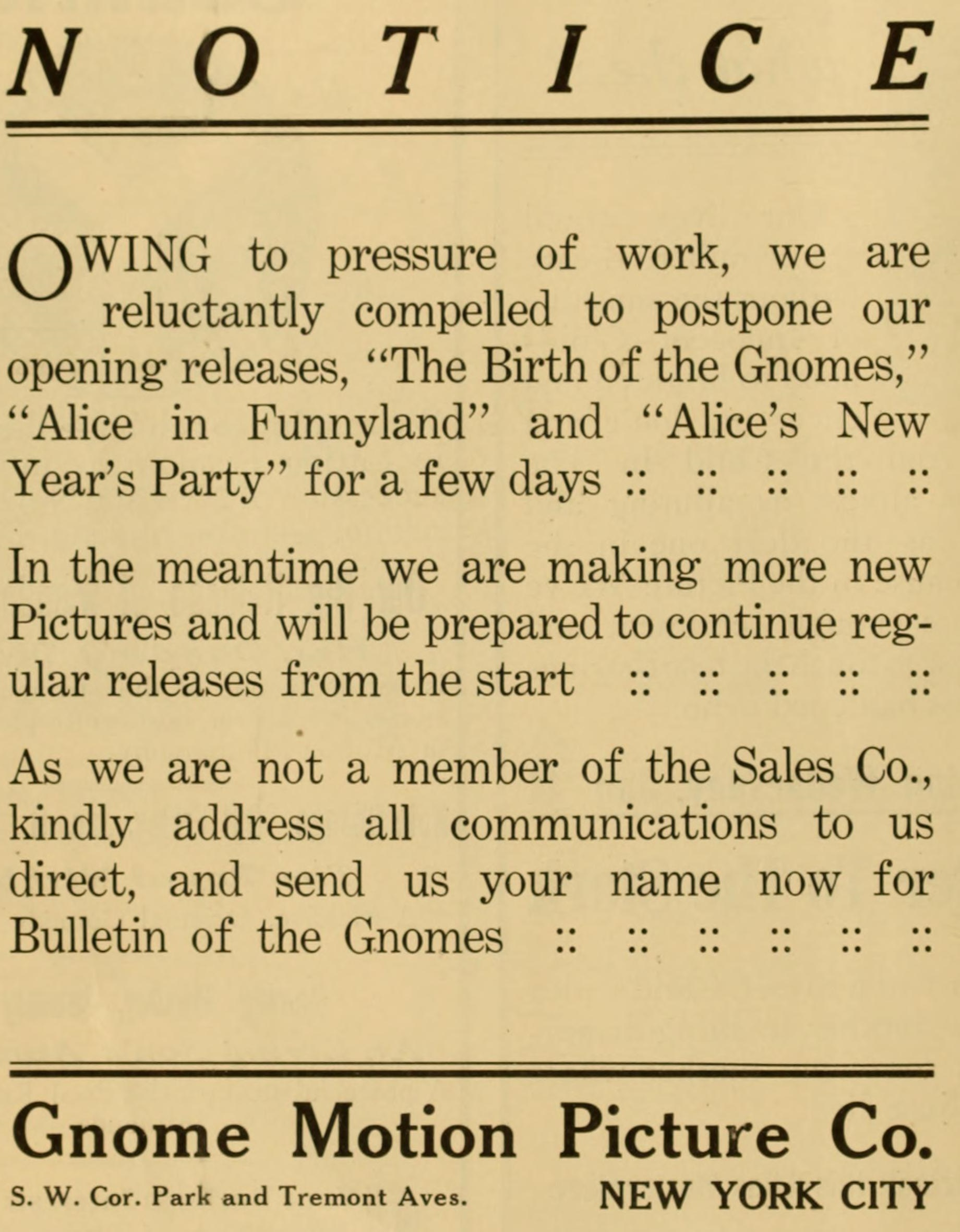 A full page advertisement announcing the delay of the Gnome Motion Picture Company's three films in Moving Picture World in January 1911.